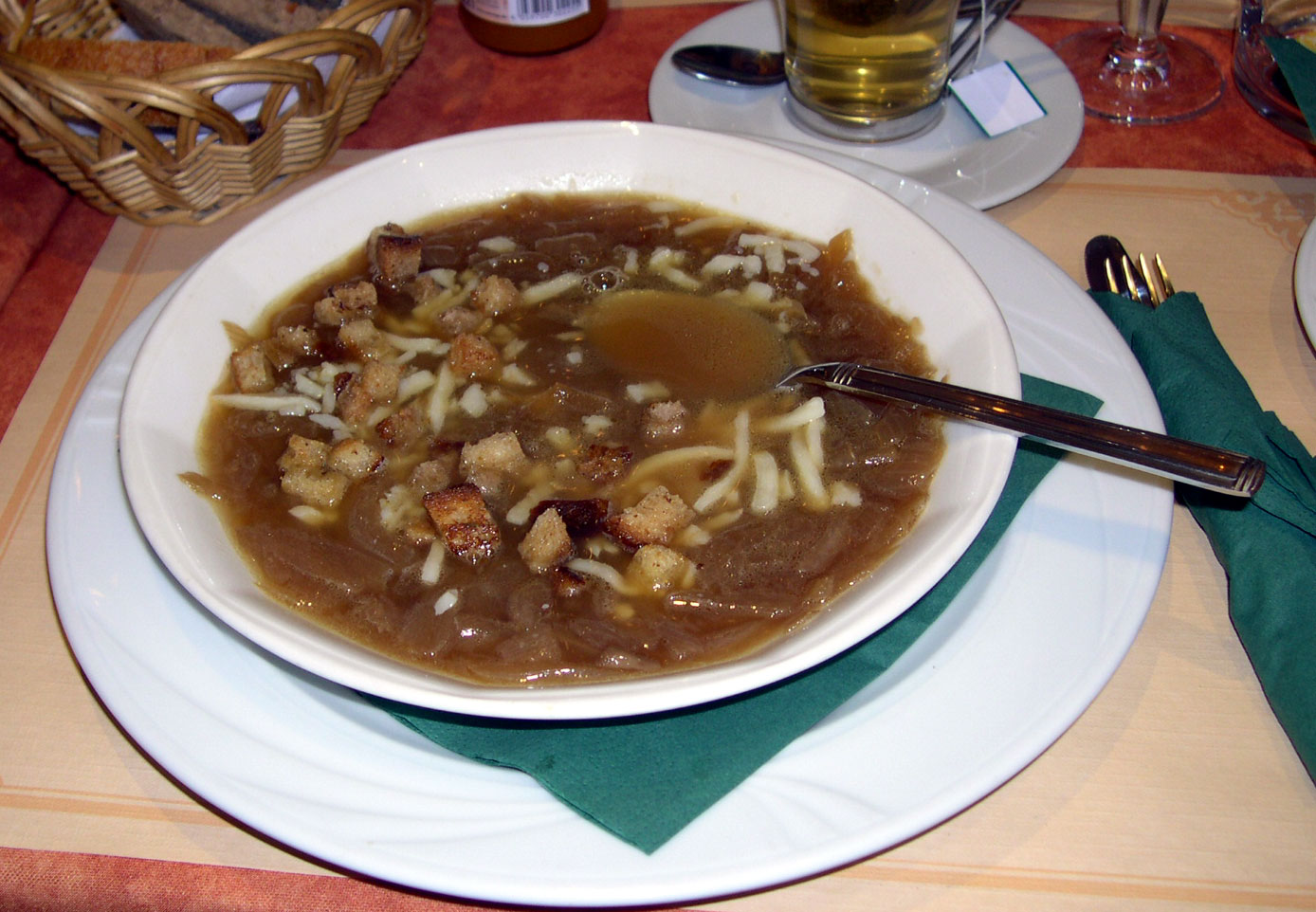 French onion soup (made by restaurant in Luxembourg). Photo by Anton Obolensky, 2005